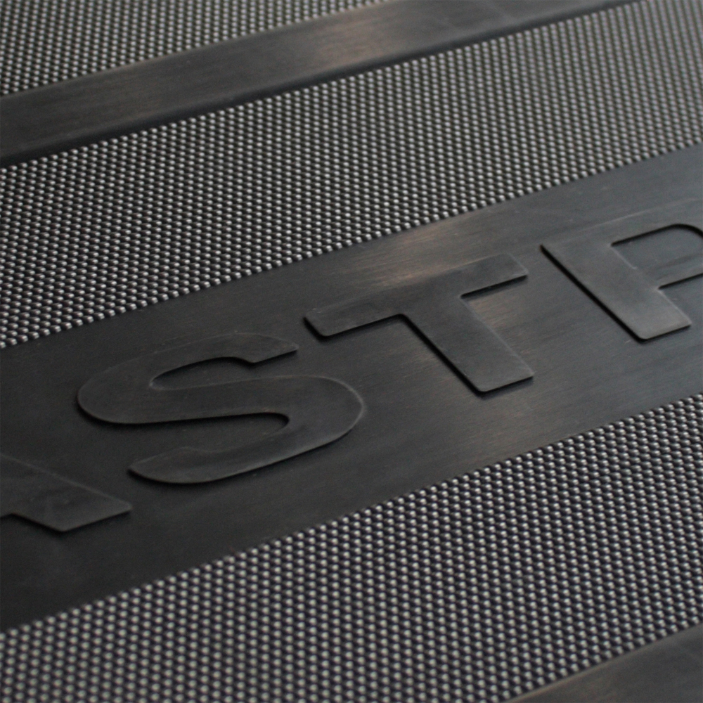 Detail-vauxhall-astra-oem-boot-liners